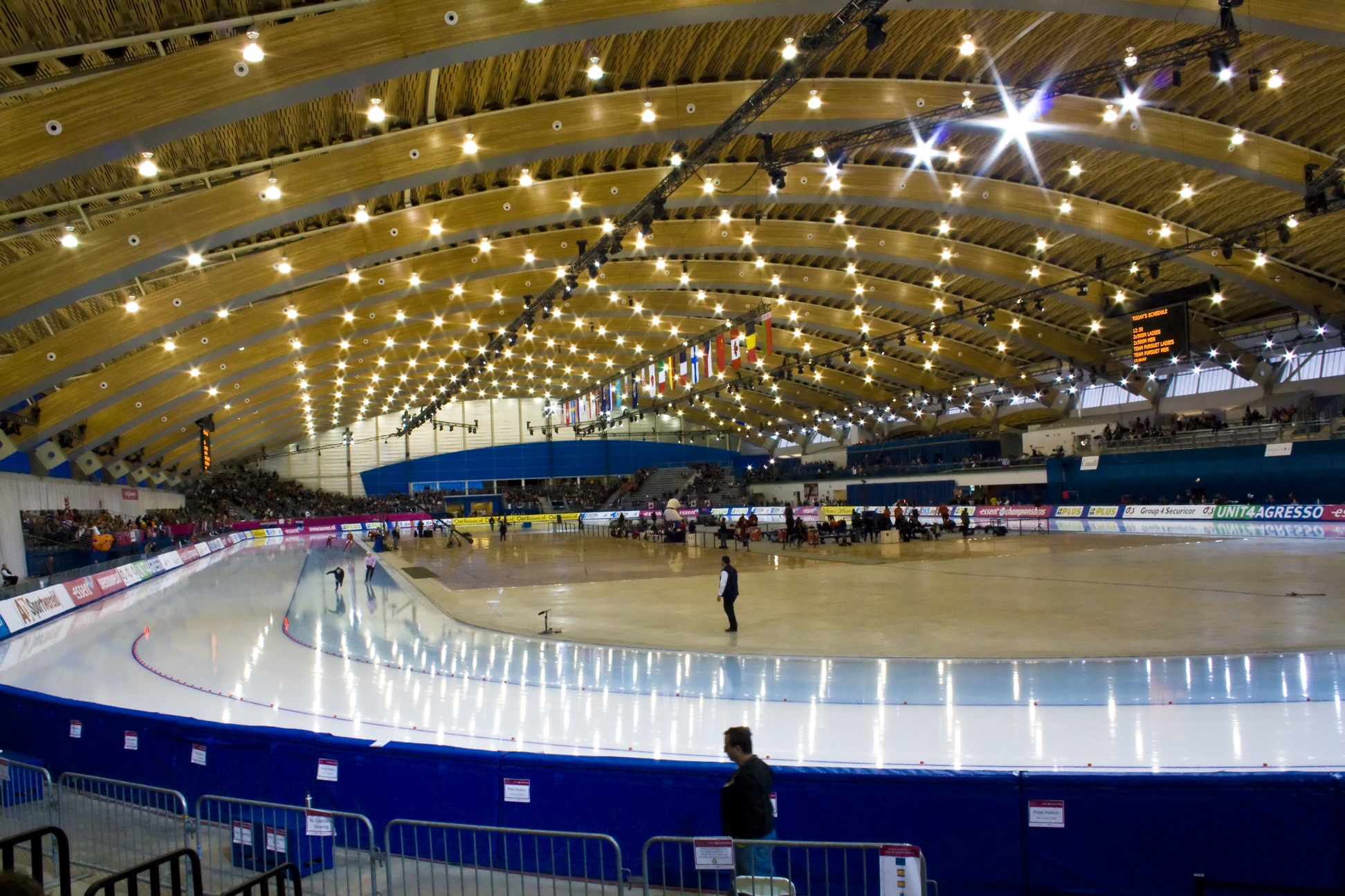 This is the venue where the competition is held. This is also where the Vancouver 2010 Winter Olympics speed skating event will be held.